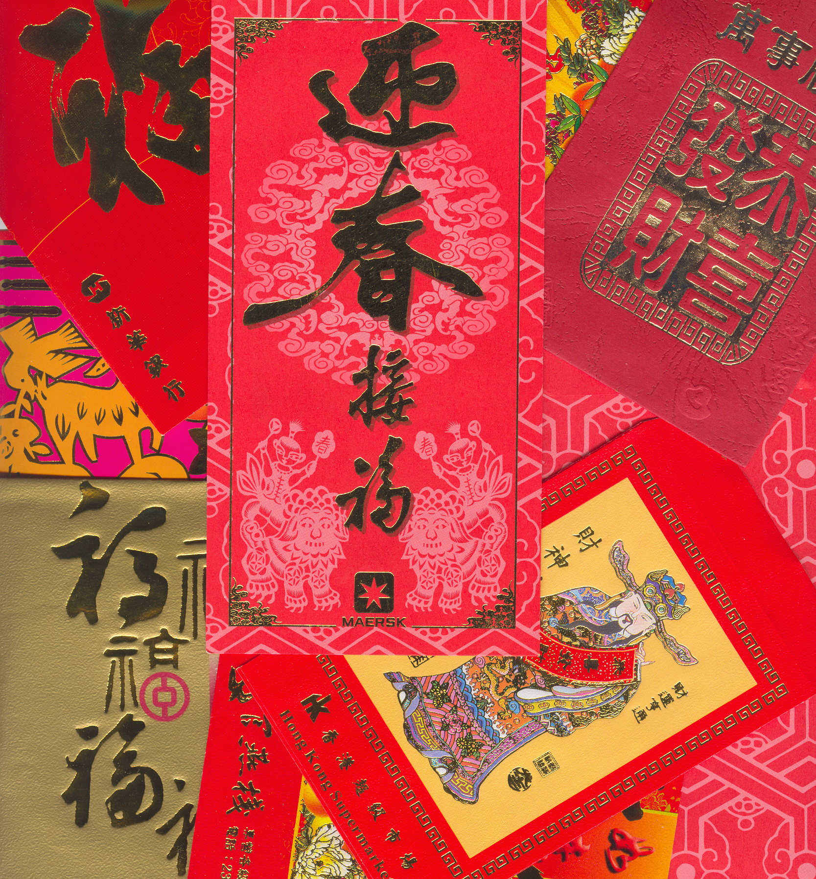 Scan of some laisees that I have. These are contemporary laisee envelope designs in Hong Kong circa 2000.